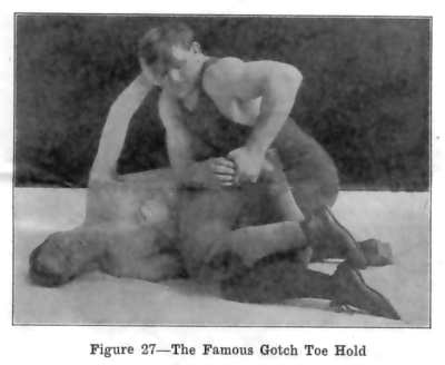 Toe hold as illustrated the scan of Figure 27 in Lessons in Wrestling & Physical Culture.